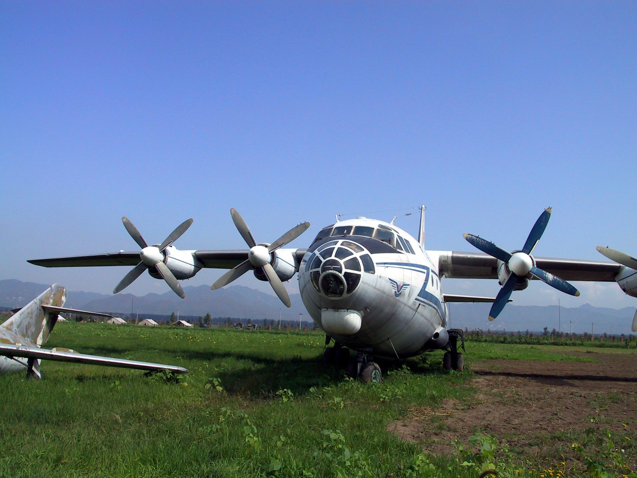 China Aviation Museum, 2002